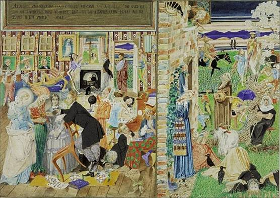 A satirical watercolor mocking the Pre-Raphaelites, with its layout being an obvious reference to that of A Converted British Family Sheltering a Christian Missionary from the Persecution of the Druids, a painting by William Holman Hunt that was exhibited at the Royal Academy in 1850.